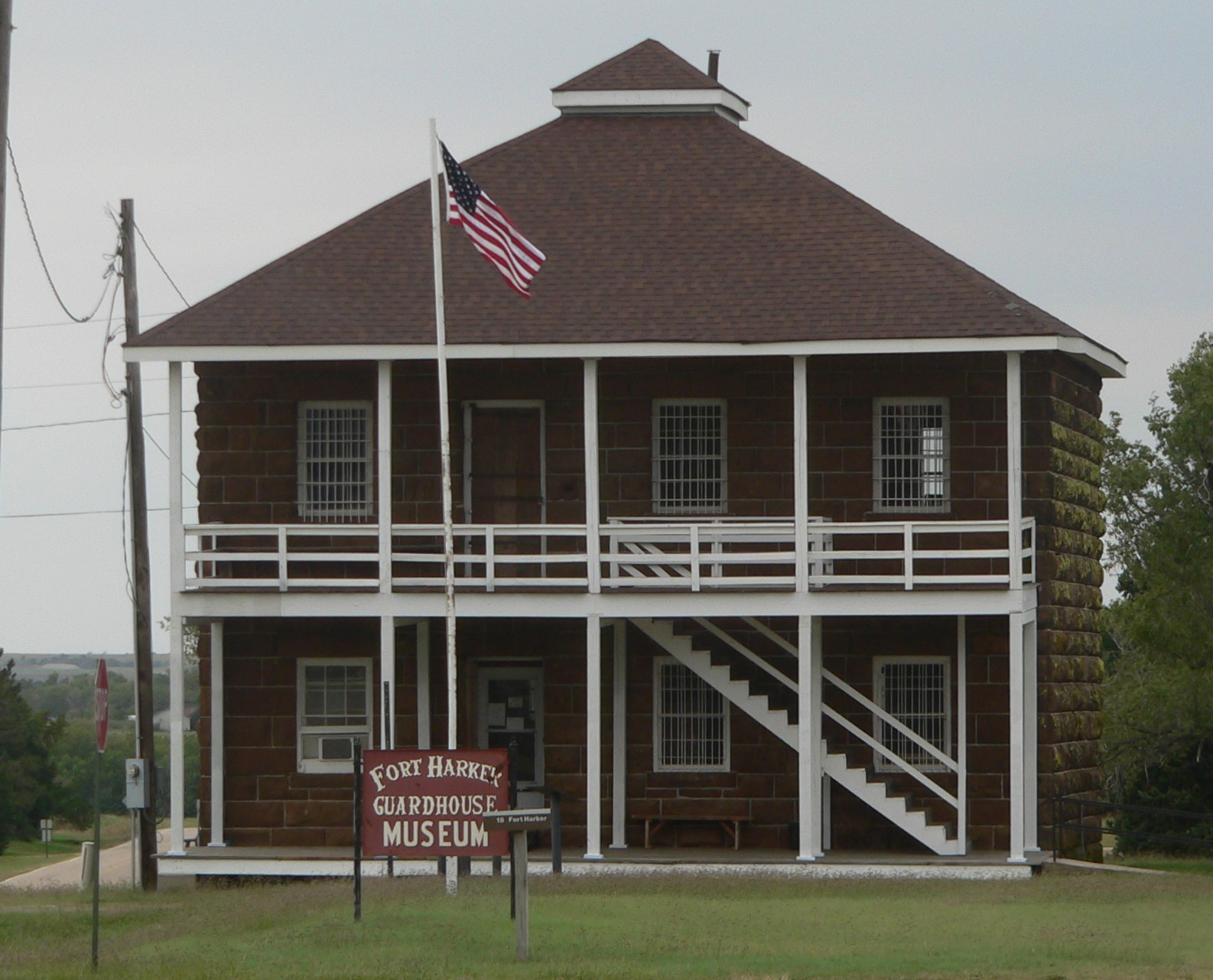 Fort Harker Guardhouse Museum, located at northwest corner of Ohio and Wyoming Streets in Kanopolis, Kansas; seen from the east, across Wyoming.